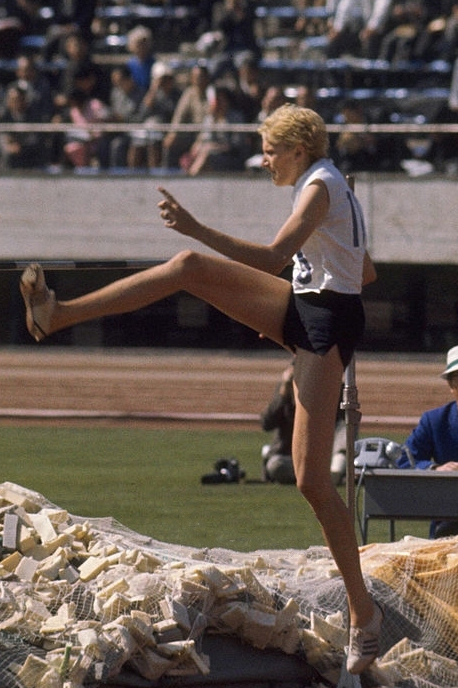 Iolanda Balaș at the 1964 OLympics